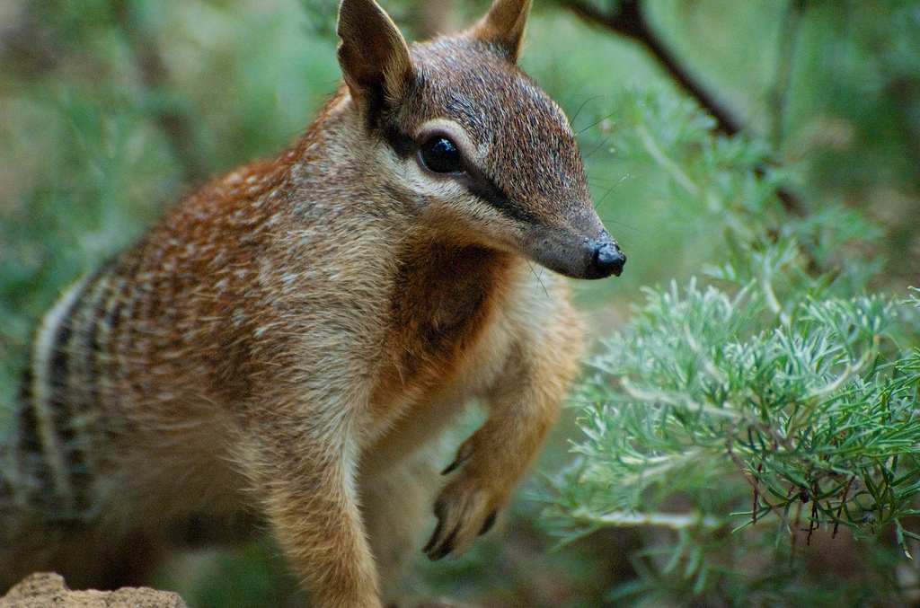 Numbat, Perth Zoo, 2010.